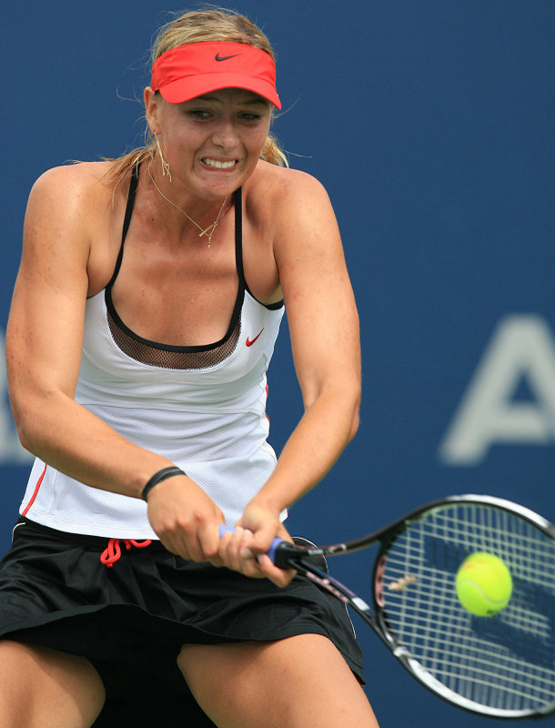 Maria Sharapova, by Andrew Huse